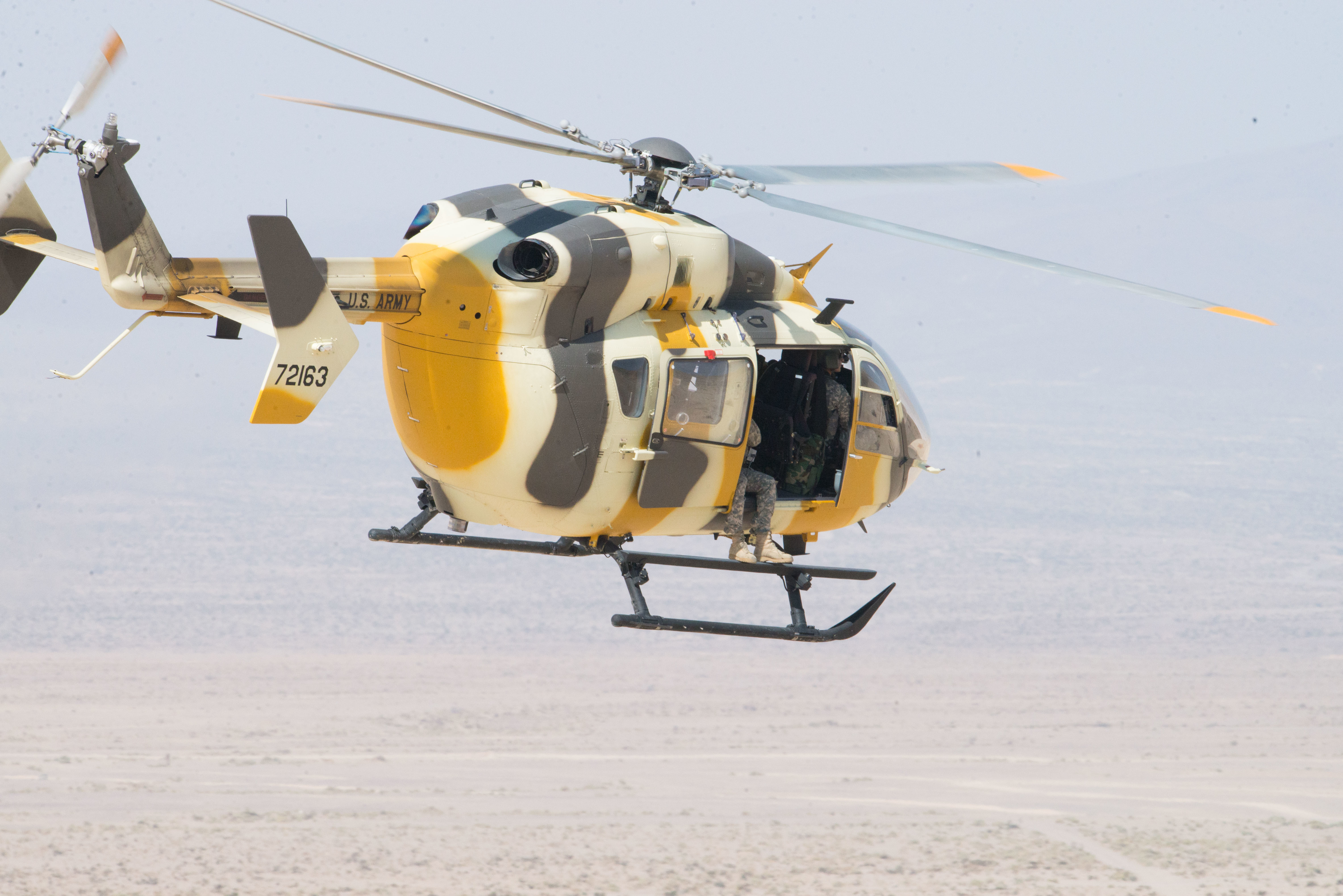 The opposition force (OPFOR), 2nd Squadron, 11th Armored Cavalry Regiment (ACR), deploys visually modified aircraft, referred to as “red air,” into a mock fight with the116th Cavalry Brigade Combat Team (CBCT), at the National Training Center (NTC), Fort Irwin, Calif., Aug. 22. The 116th CBCT is participating in battle The Opposing Force (OPFOR), 2nd Squadron, 11th Armored Cavalry Regiment (ACR), deploys visually modified aircraft, referred to as “red air,” into a mock fight with the116th Cavalry Brigade Combat Team (CBCT), at the National Training Center (NTC), Fort Irwin, Calif., Aug. 22. The 116th CBCT is participating in battle simulation scenarios with more than 5,000 Soldiers with National Guard units from 10 states, the U.S. Army Reserve and active duty U.S. Army Soldiers as part of their annual training. (Photo by Maj. W. Chris Clyne, 115th Mobile Public Affairs Detachment) Unit: 115th Mobile Public Affairs Detachment